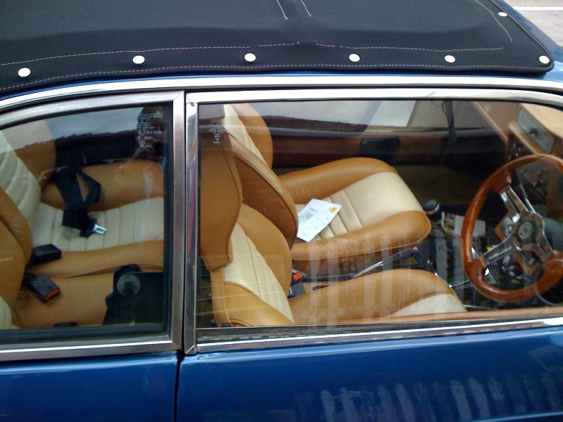 Lancia 2000 interior.